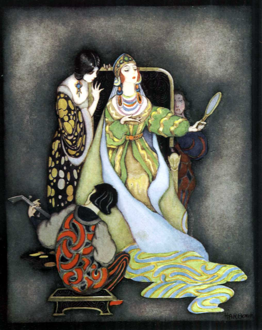 From MY BOOK OF FAVOURITE FAIRY TALES ILLUSTRATED BY JENNIE HARBOUR.